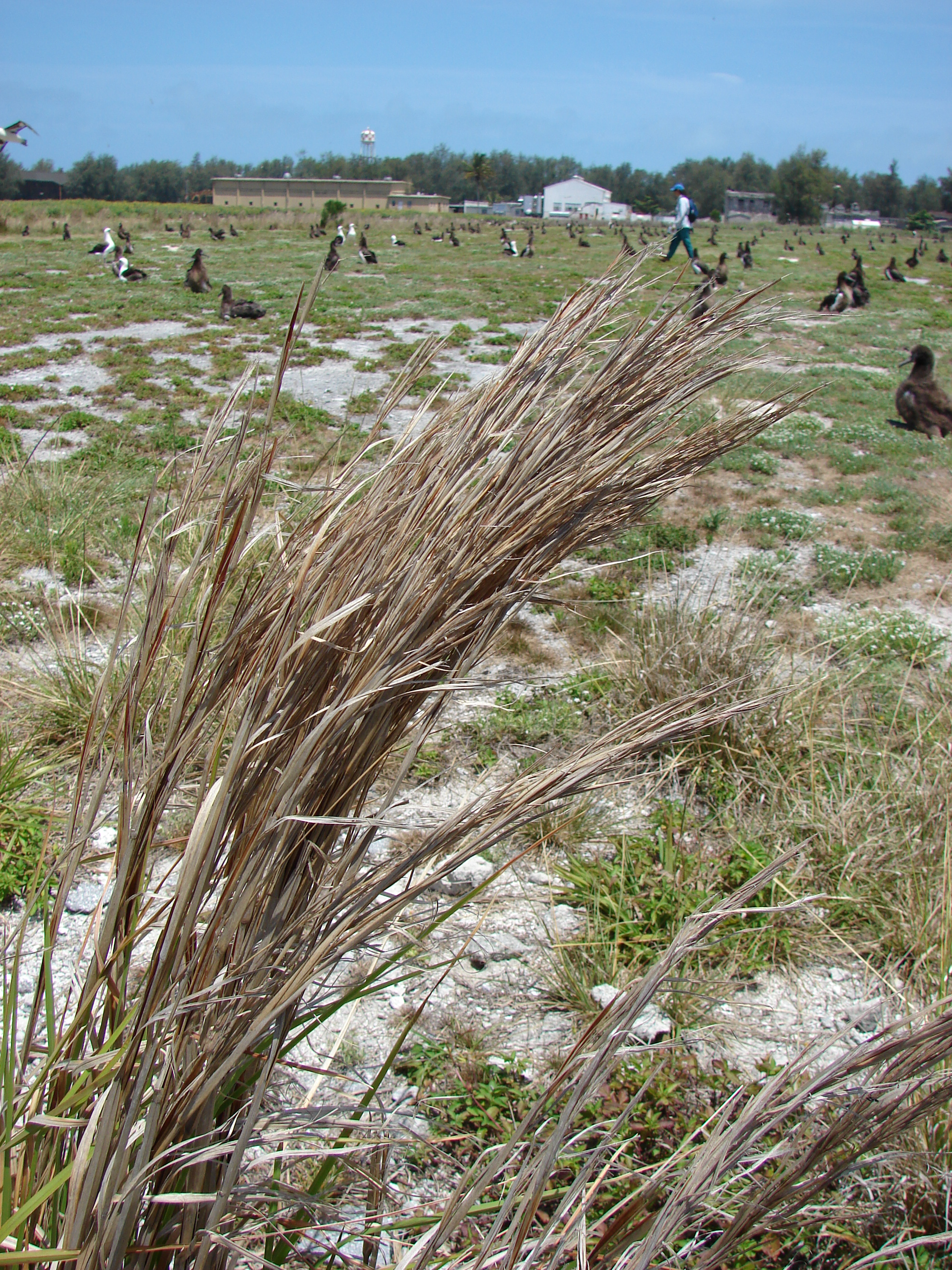 Andropogon virginicus (habit with Kim and Laysan albatross). Location: Midway Atoll, Antenna fields Sand Island